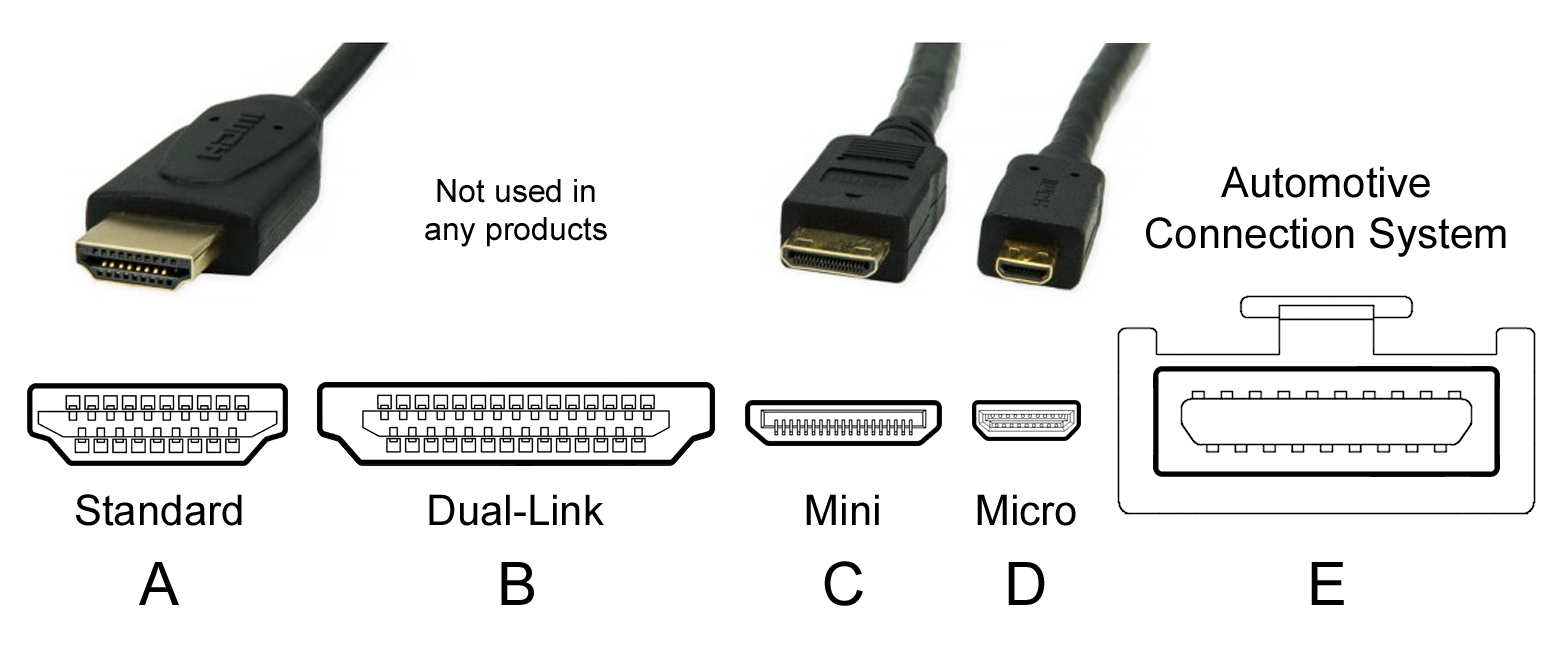 HDMI connector plugs (male): Type A (Standard), Type B (Dual-Link), Type C (Mini), Type D (Micro), and Type E (Automotive). Photos from: File:HDMI-HDMImini-HDMImicro.png